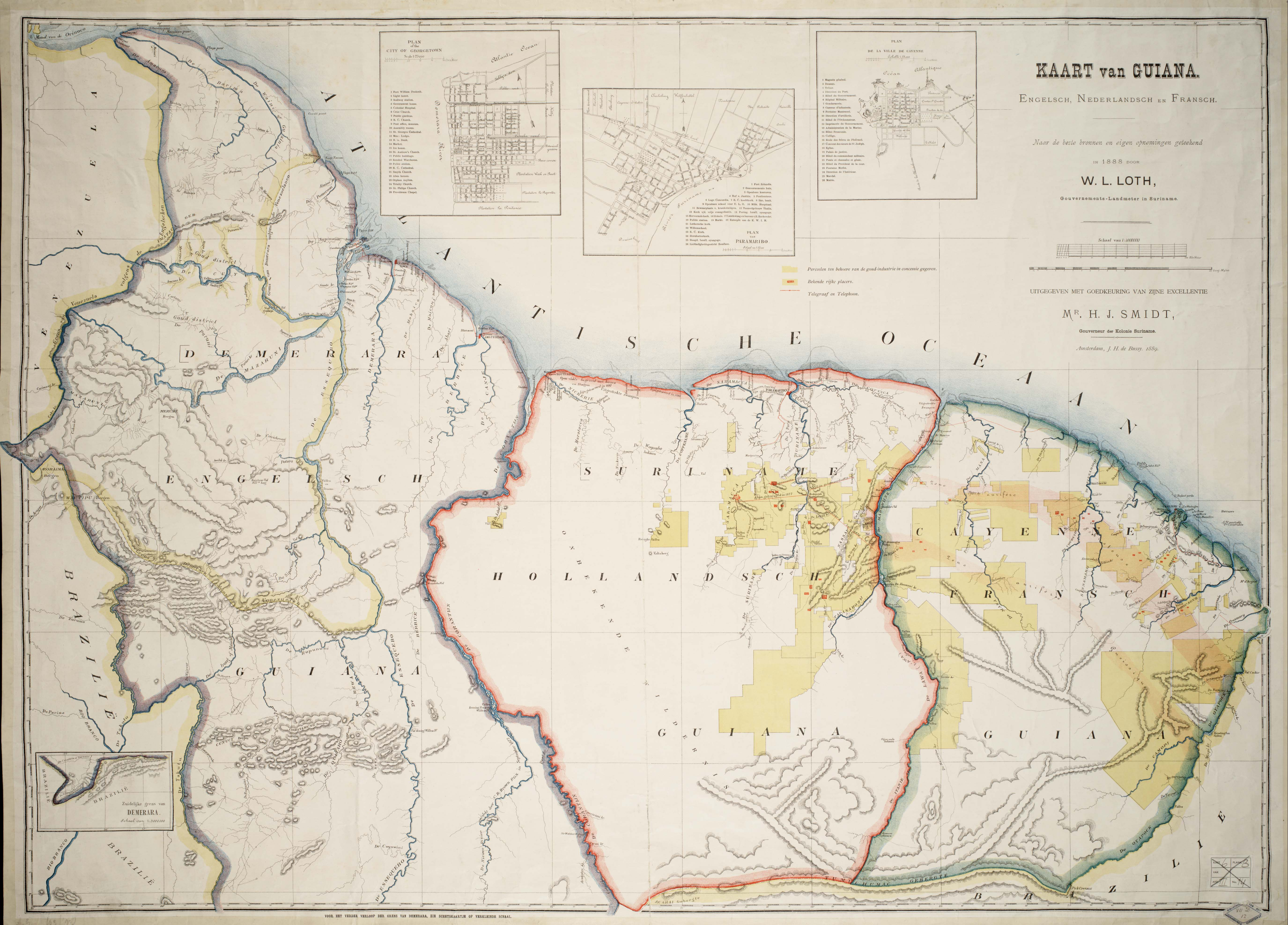 Map of the Guianas showing the situation in 1888. Published in 1889.